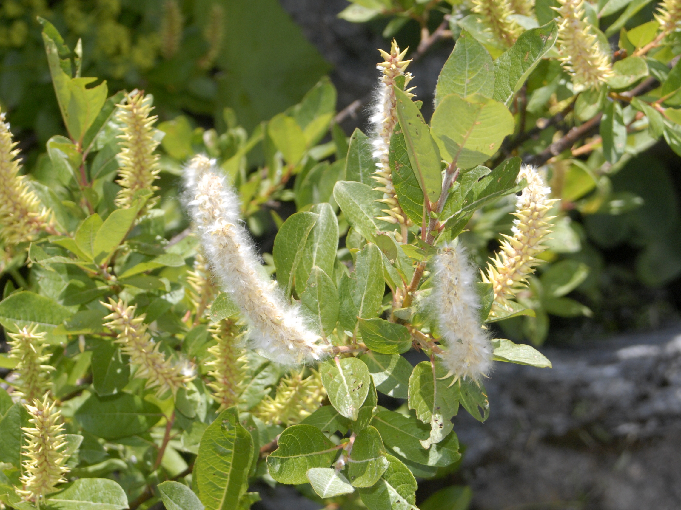 Salix bicolor at the Giardino Botanico Alpino Chanousia